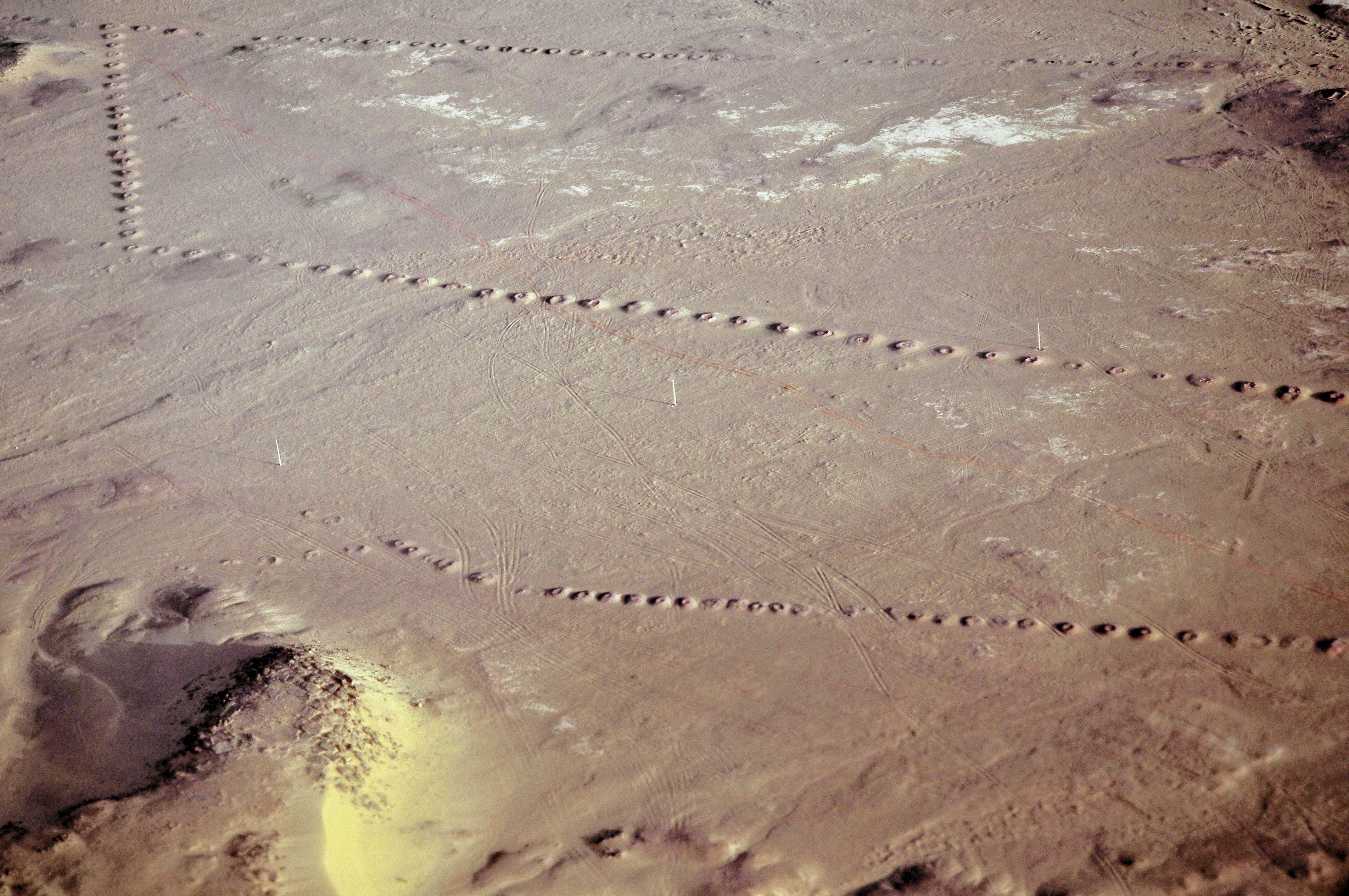 An aerial view of the manholes of some qanats at Timimoun (Adrar, Algeria)